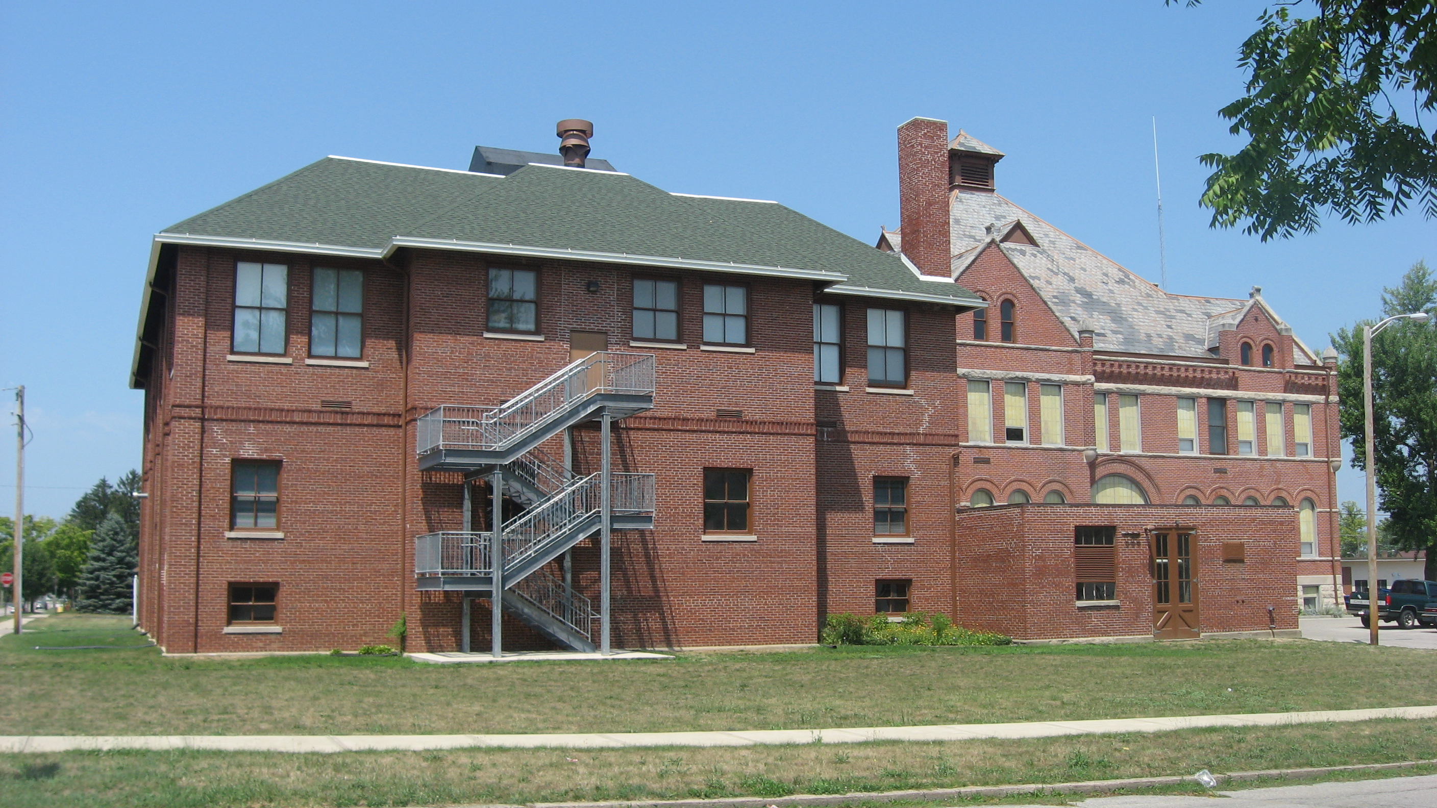 Front of the Gas City High School, located at 400 E. South A Street in Gas City, Indiana, United States. Built in 1894 (right) and 1923 (left) and since converted into apartments, it is listed on the National Register of Historic Places.